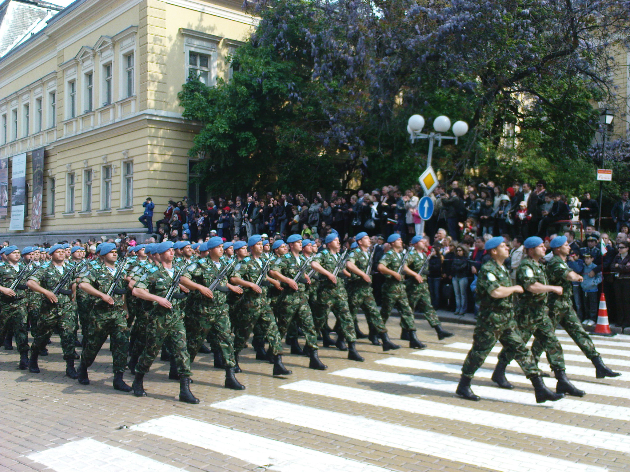 Bulgarian soldiers marching on Army day parade in Sofia